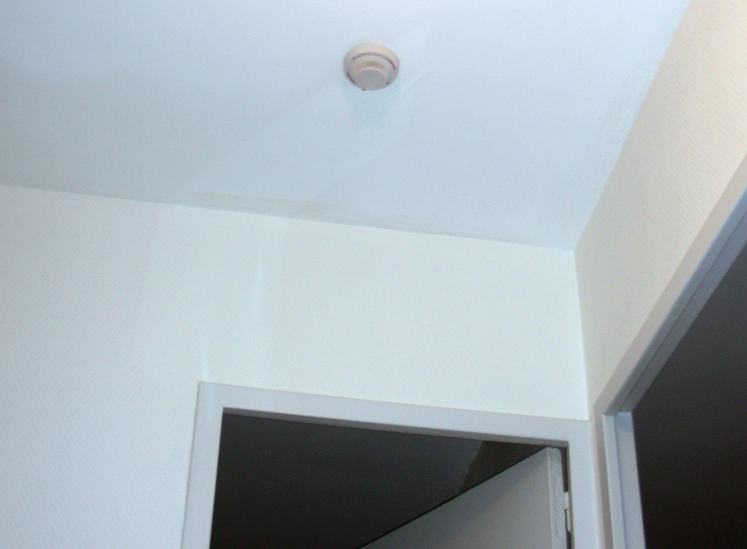 Smoke detector in an apartment.